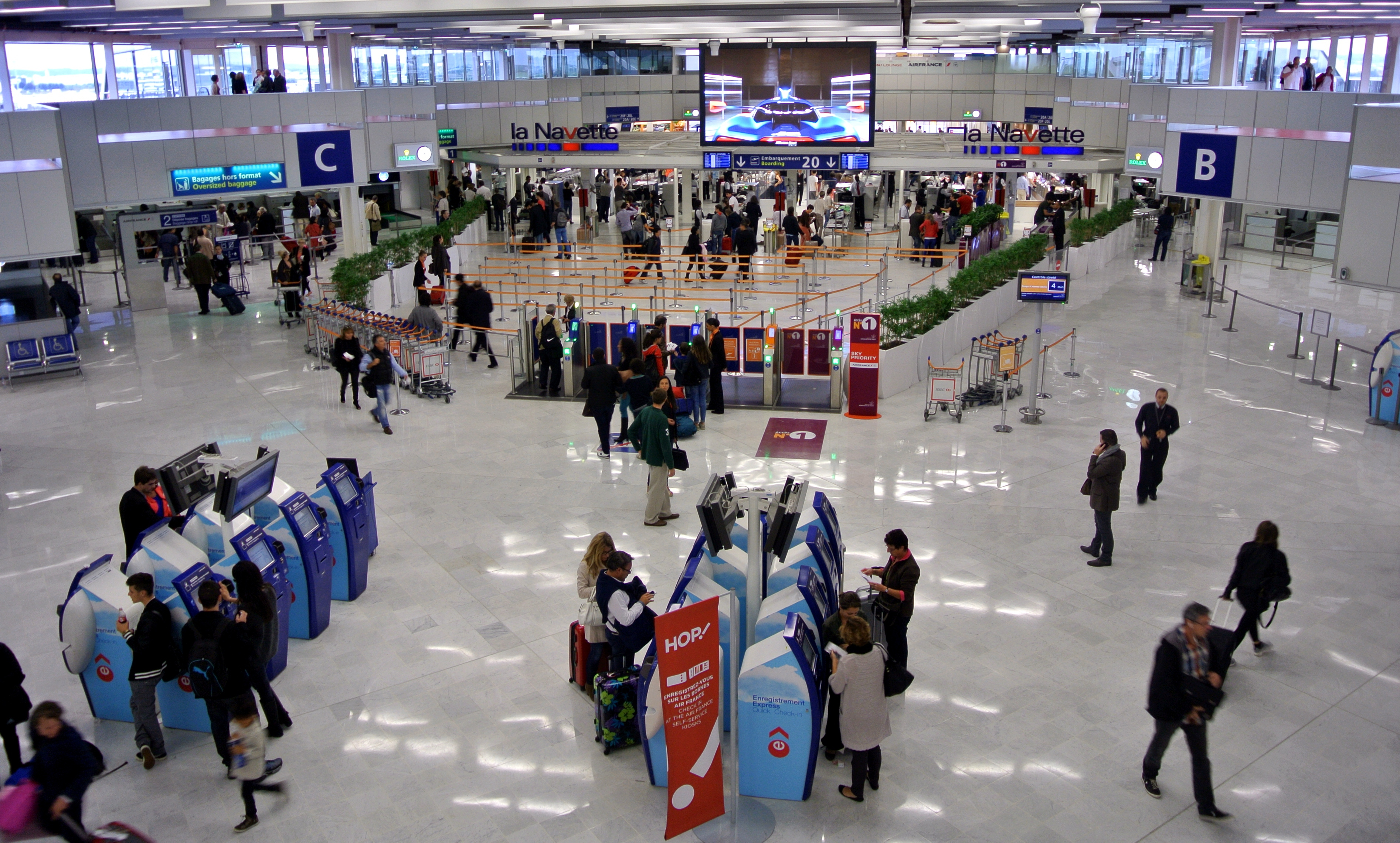 Orly Airport, West Terminal, Air France - La Navette Hall